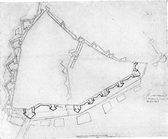 Earthmoving bastions of Peter I